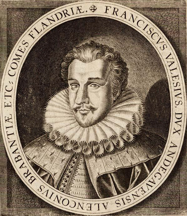 François d'Anjou - François-Hercule de Valois